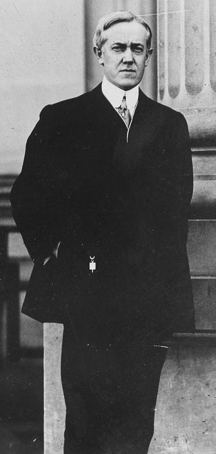 John W. Davis standing in full figure